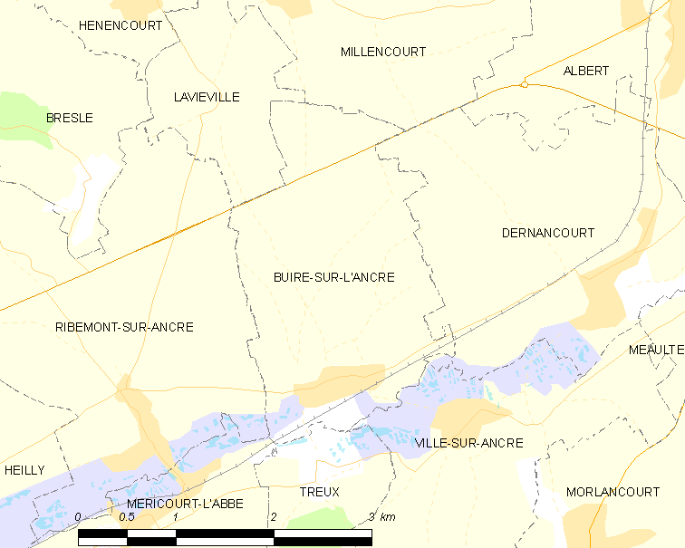 Map of French municipality Buire-sur-l'Ancre